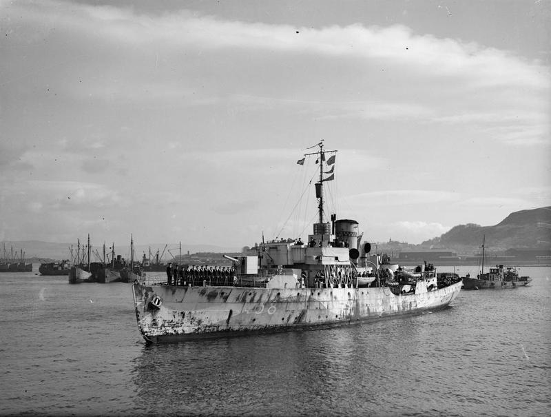 Fighting French Corvette Sinks 2 U-boats. 14 March 1943, Greenock, the Fighting French Corvette Aconit Sank Two U-boats by Gunfire and Ramming While Escorting An Atlantic Convoy Through U-boat Pack on 10 March 1943. the Second Submarine Had Just Torpedoed the British Destroyer HMS Harvester . the Aconit Steamed To a British Port With Survivors From the Harvester and a Merchantman, and Prisoners From the Two U-boats. FFS ACONIT entering harbour after her battle.